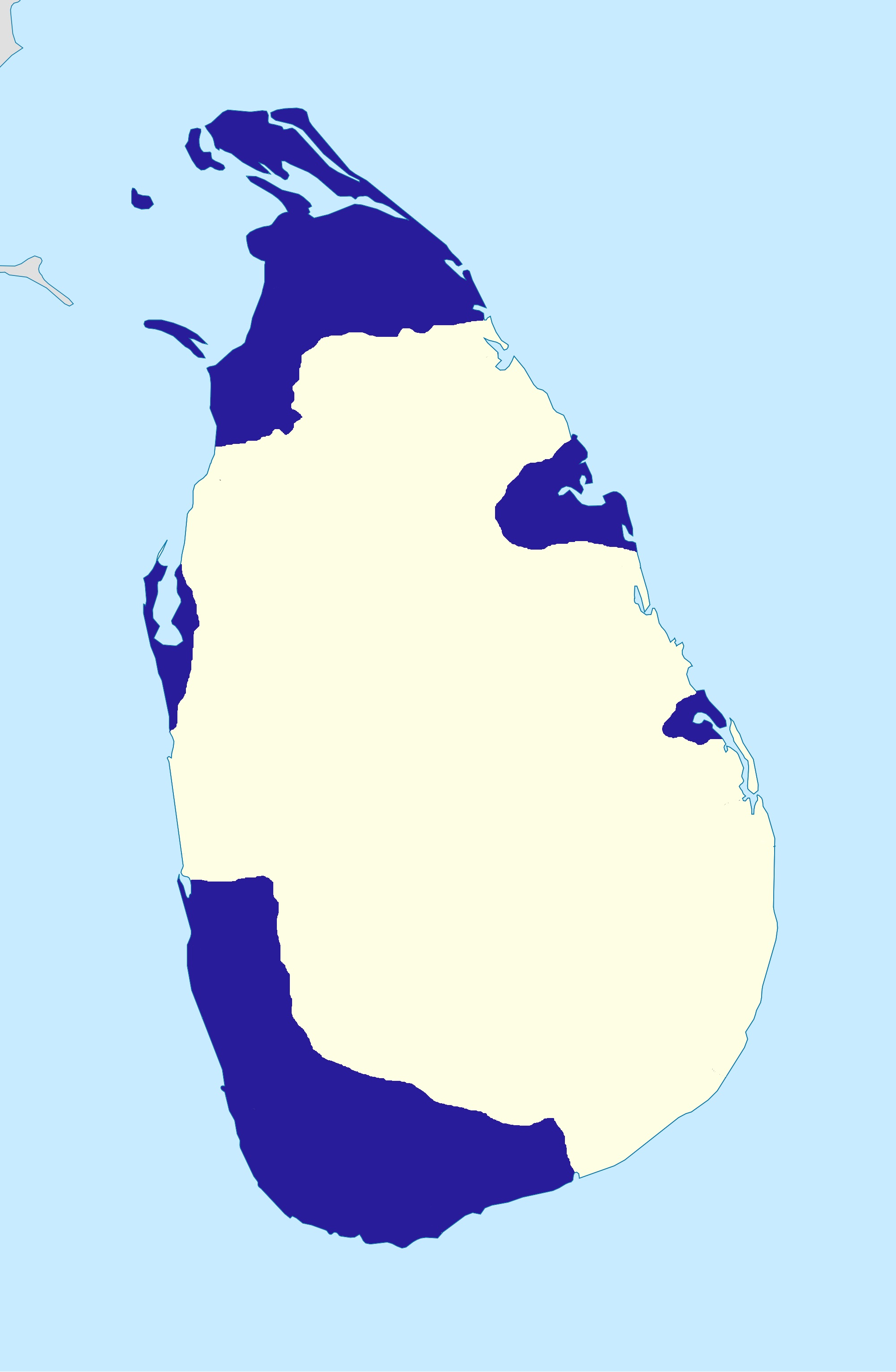 Nederlands-Ceylon